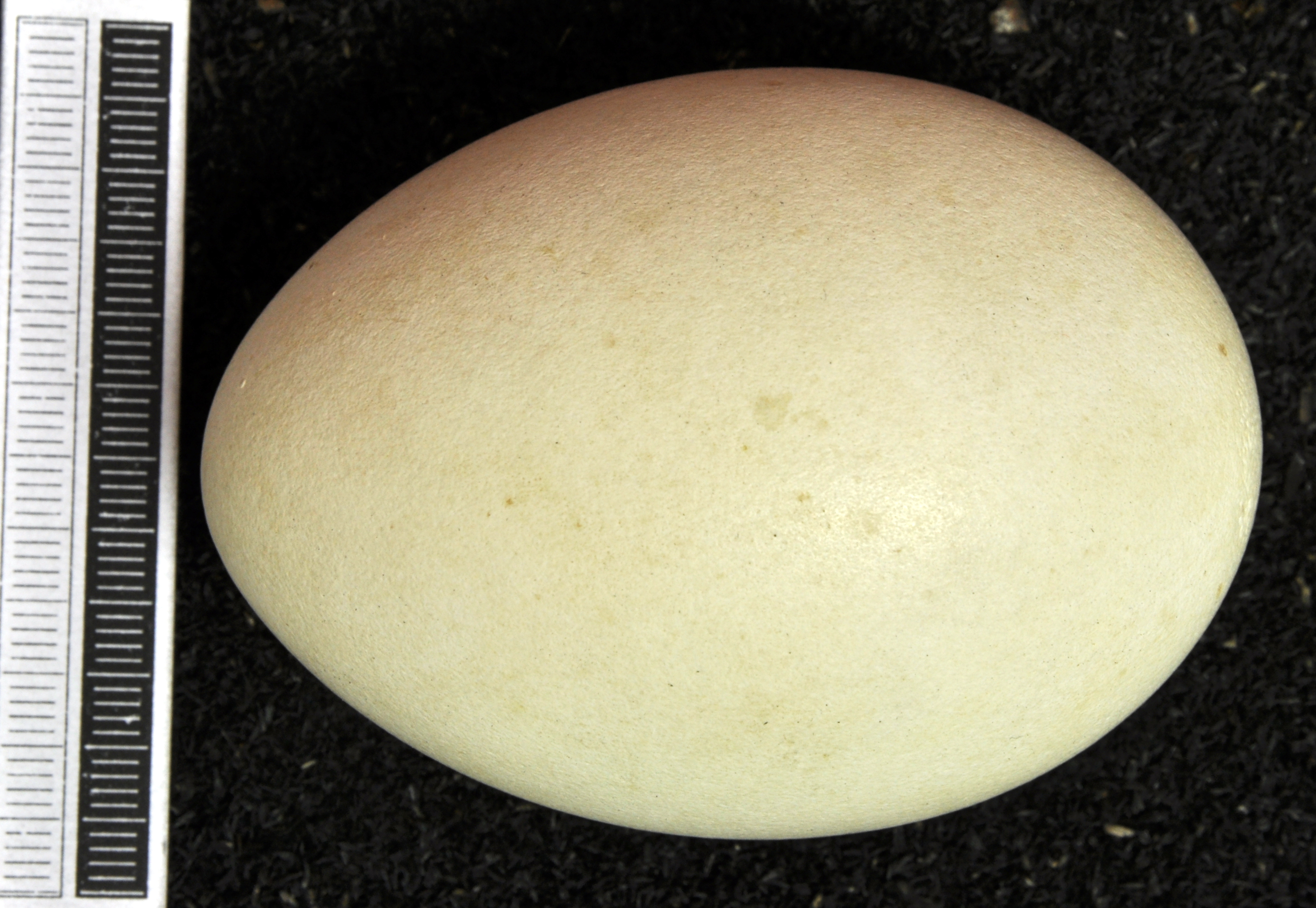 Bonelli's eagle Hieraaetus fasciatus , egg, Coll. Museum Wiesbaden